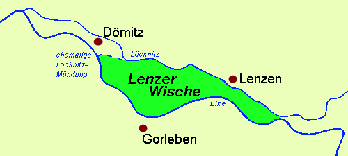 Position of the Wetland Lenzer Wische between the rivers Elbe and Löcknitz